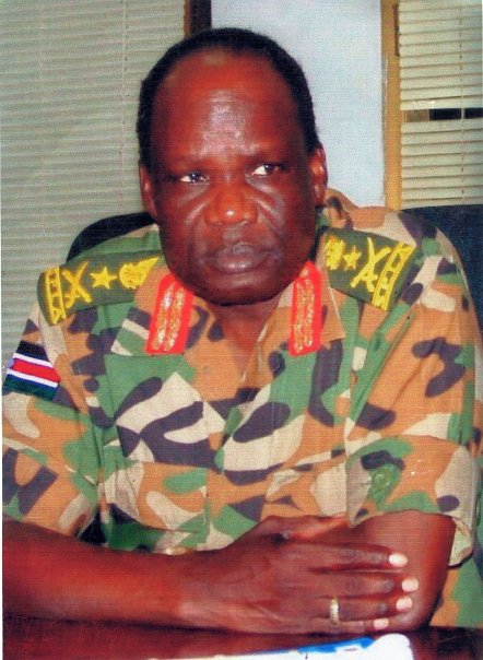 Dominic Dim Deng taken in Juba, Sudan on April 2008.